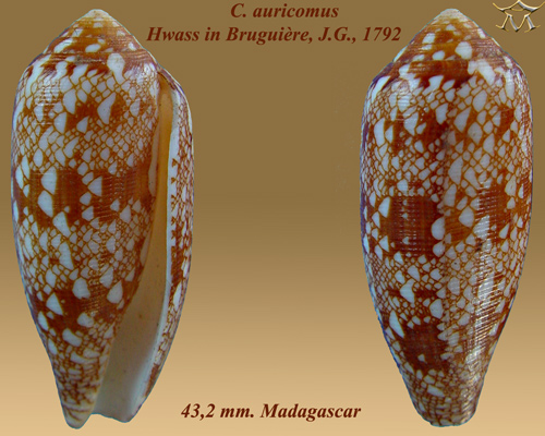 Conus auricomus 1